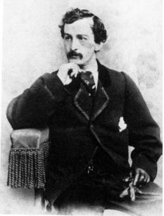 Cropped version of Image:Booth daguerreotype.jpg